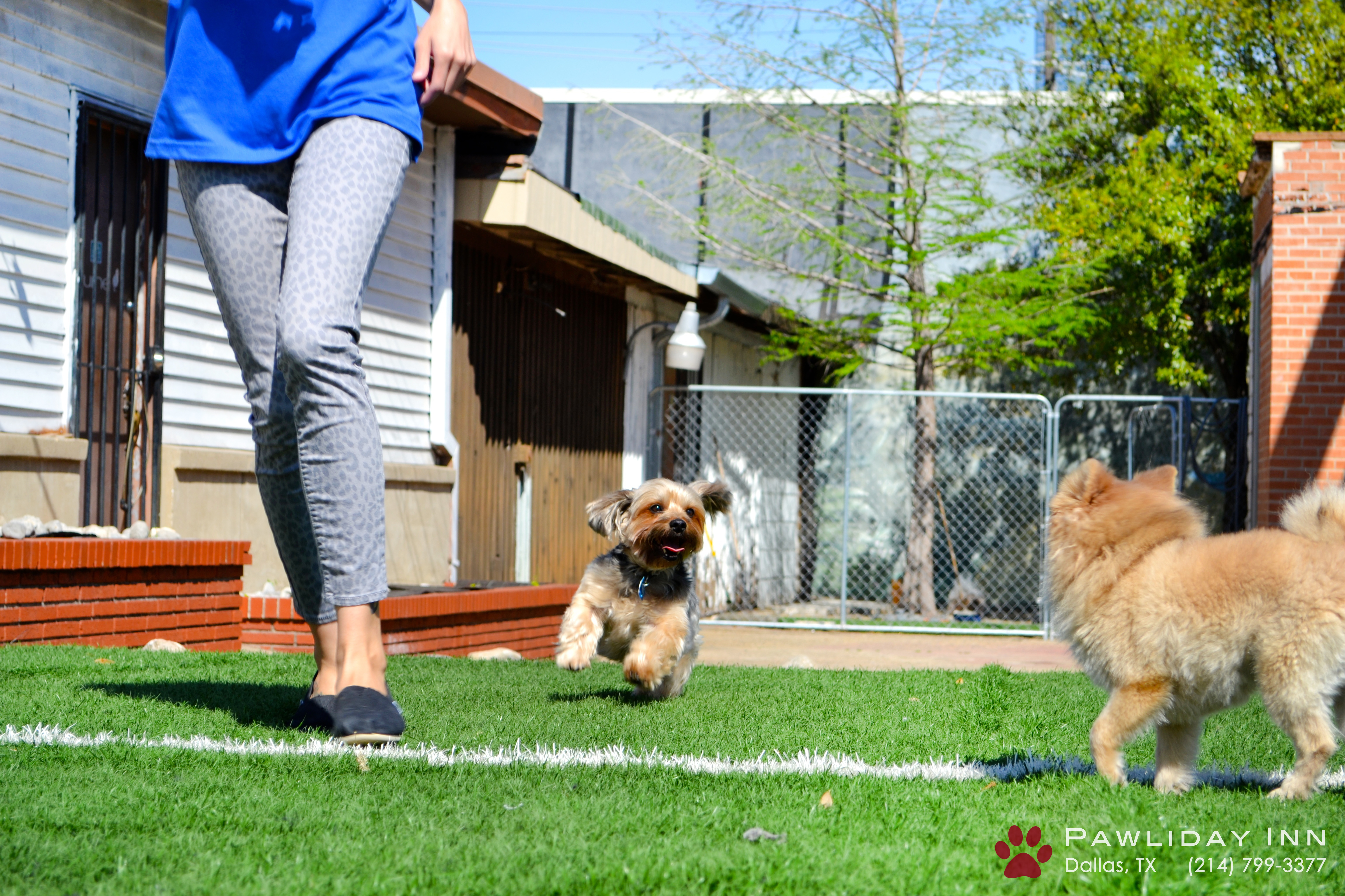 Dog boarding, daycare, and grooming facility in Dallas, TX